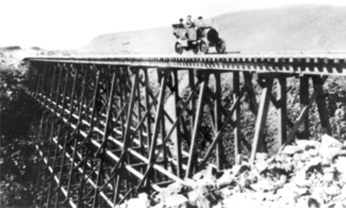 Trestle Bridge of Death Valley Railroad. On top of the bridge is the "emergency car" of the Death Valley Rail Road (DVRR), which was a 1912 Cadillac converted to run on narrow gauge rails with 3ft (914mm) gauge. In the car are Major Boyd, Mrs Gower and Pauline Gower. Photograph by Death Valley National Park courtesy of Rio Tinto Minerals (U.S. Borax Collection). Reference: Motor Vehicles in the Death Valley Region, Page 13.